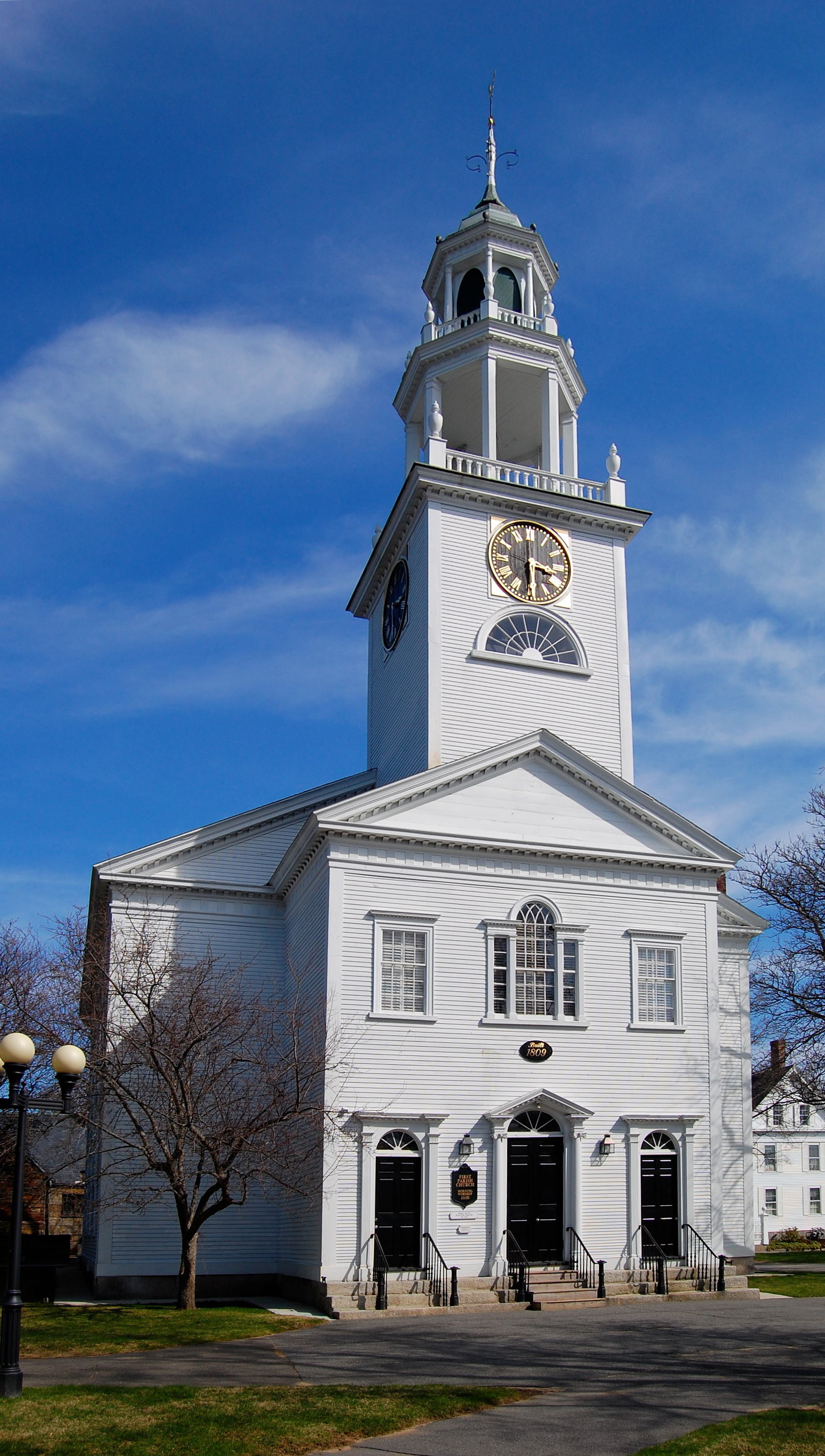 First Parish Church in Manchester-by-the-Sea, Massachusetts, built in 1809 for $8500.